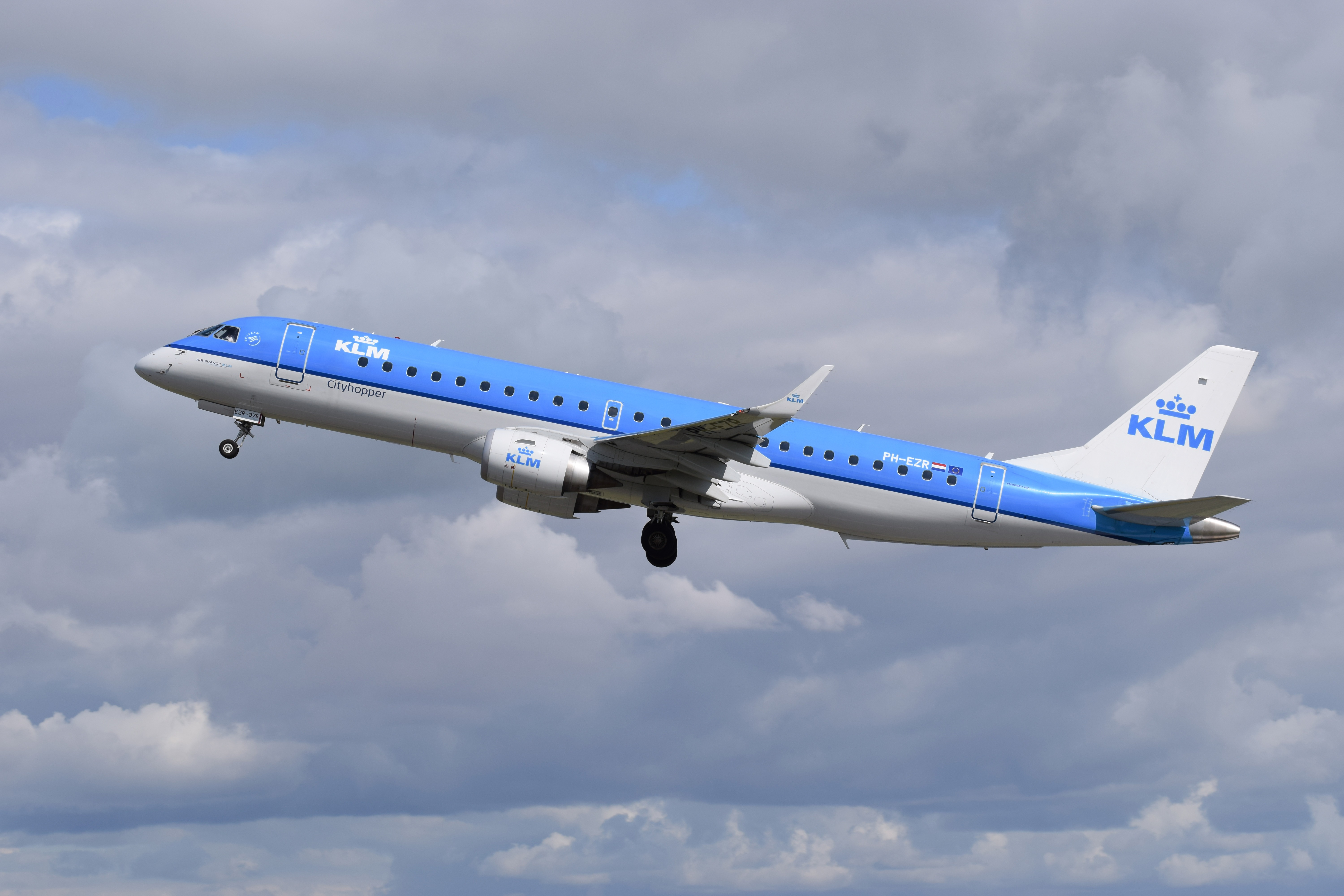 KLM Cityhopper Embraer ERJ-190-100STD (PH-EZR) departs Bristol Airport, England. The nose undercarriage has begun retracting.